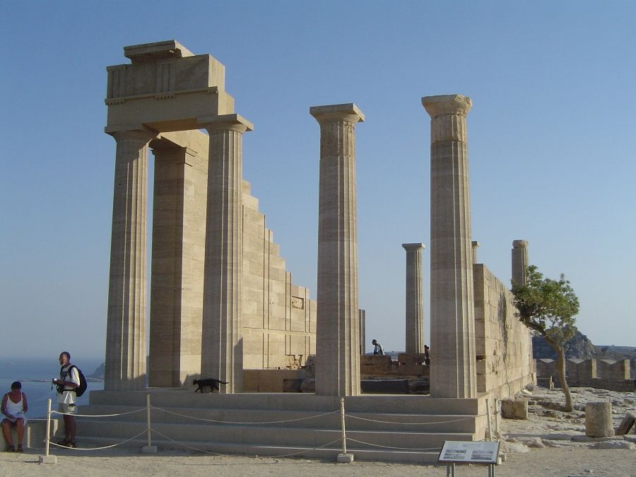 Doric Temple of Athena Lindia - July 2006